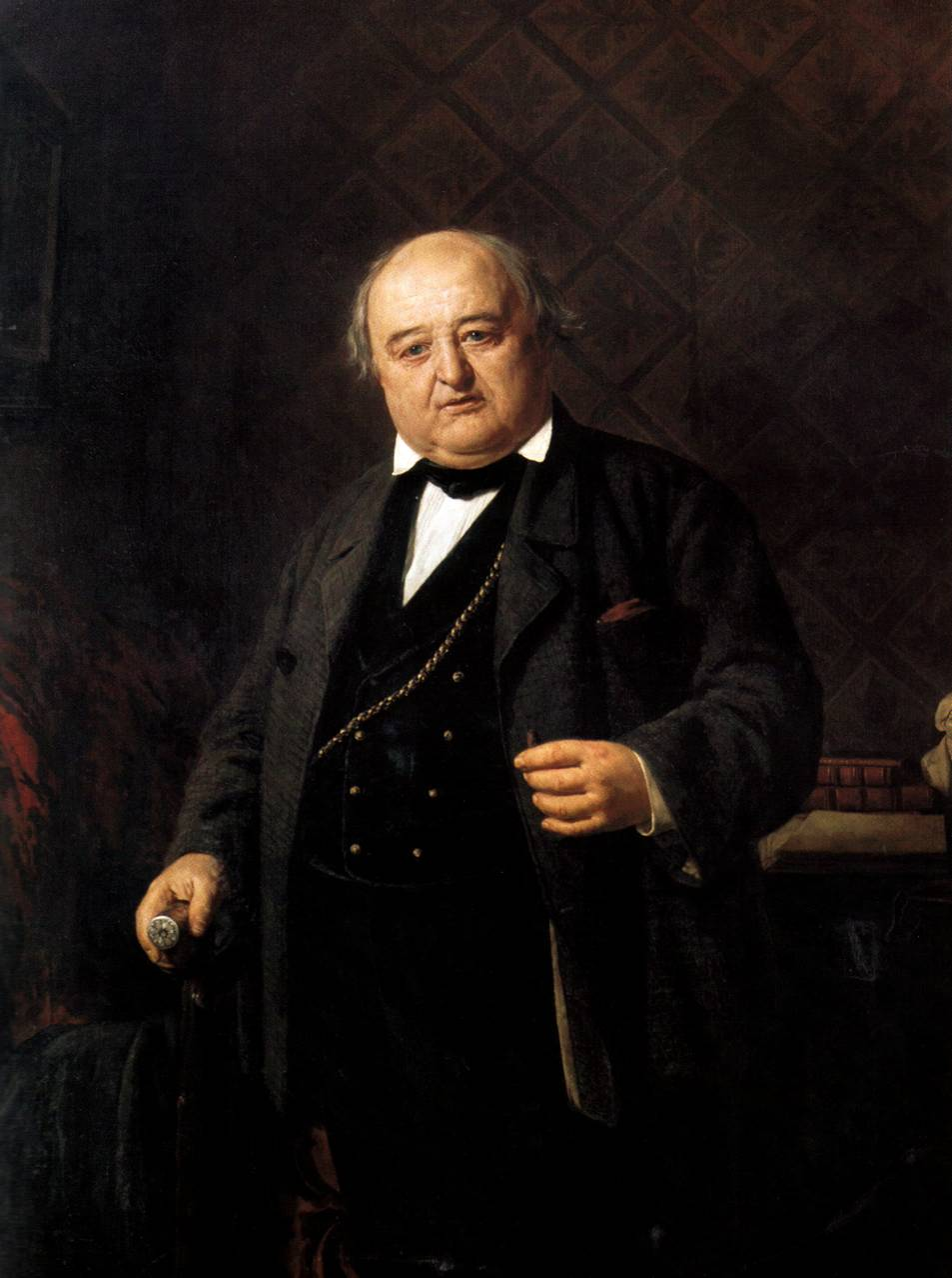 Portrait of Mikhil Schepkin